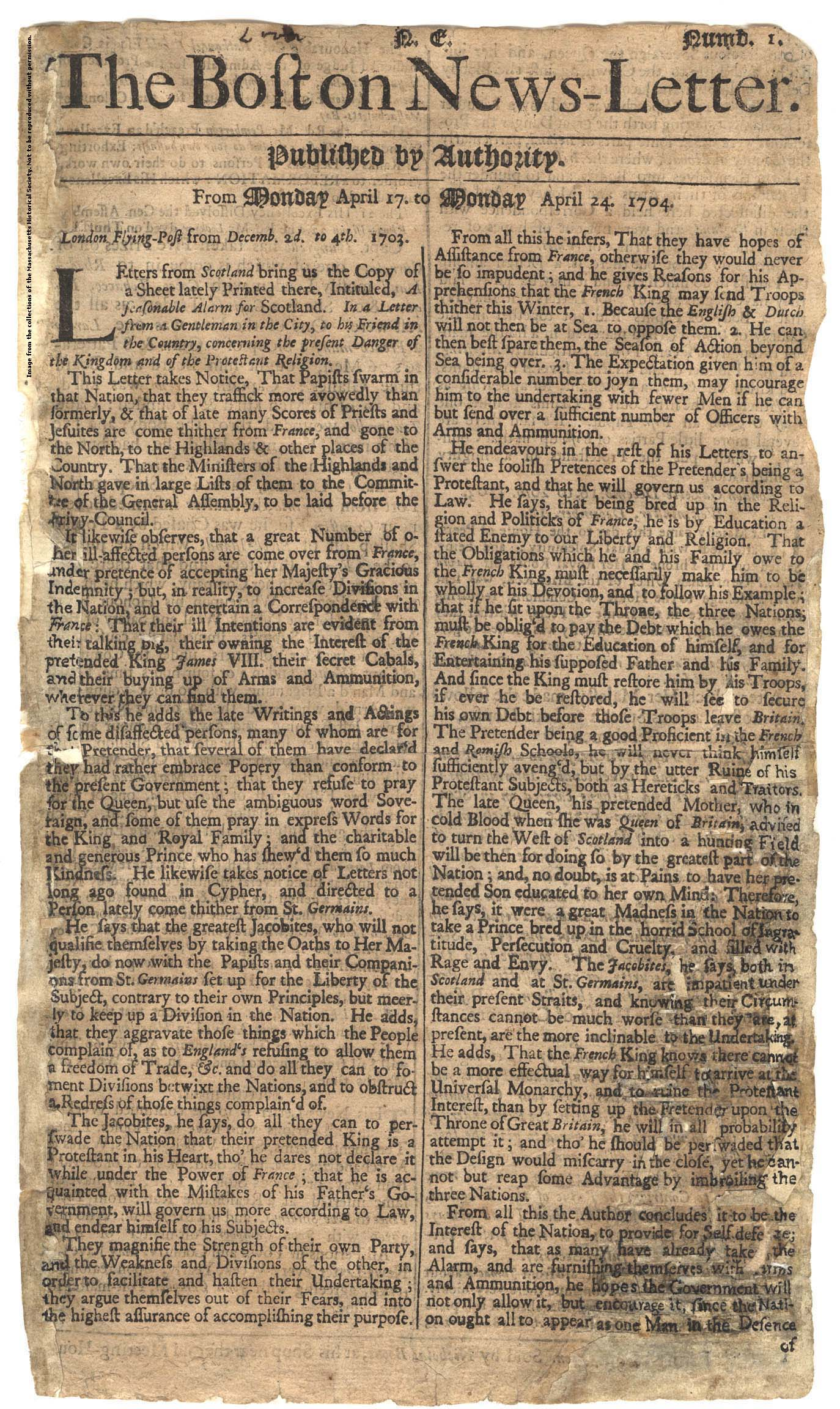 First issue of the Boston News-Letter, regarded as the first continuously published newspaper in British North America. Published April 24, 1704.